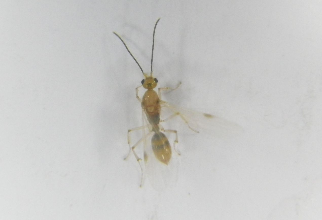 Drone of Brachyponera chinensis：2019/07/07 Matsubushi City. Saitama Pref. Japan